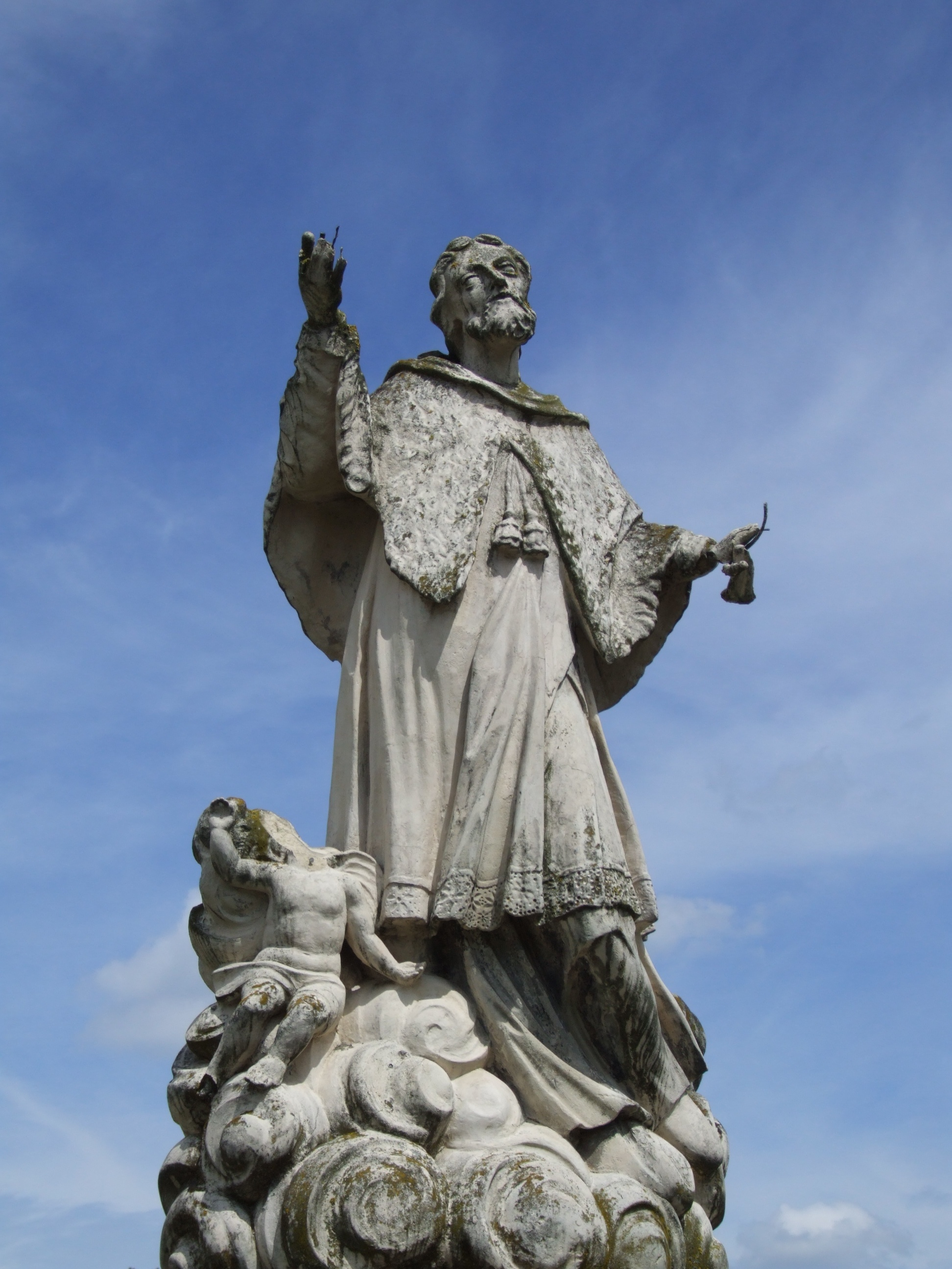 Varaždin, Croatia - statue of Saint Jerome in front of Old Castle.